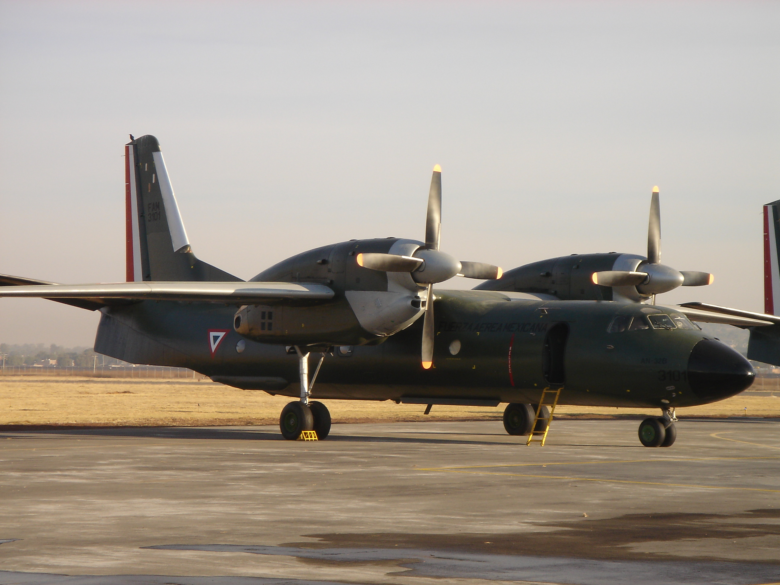 Rusian made AN-32B in Santa Lucia AFB.